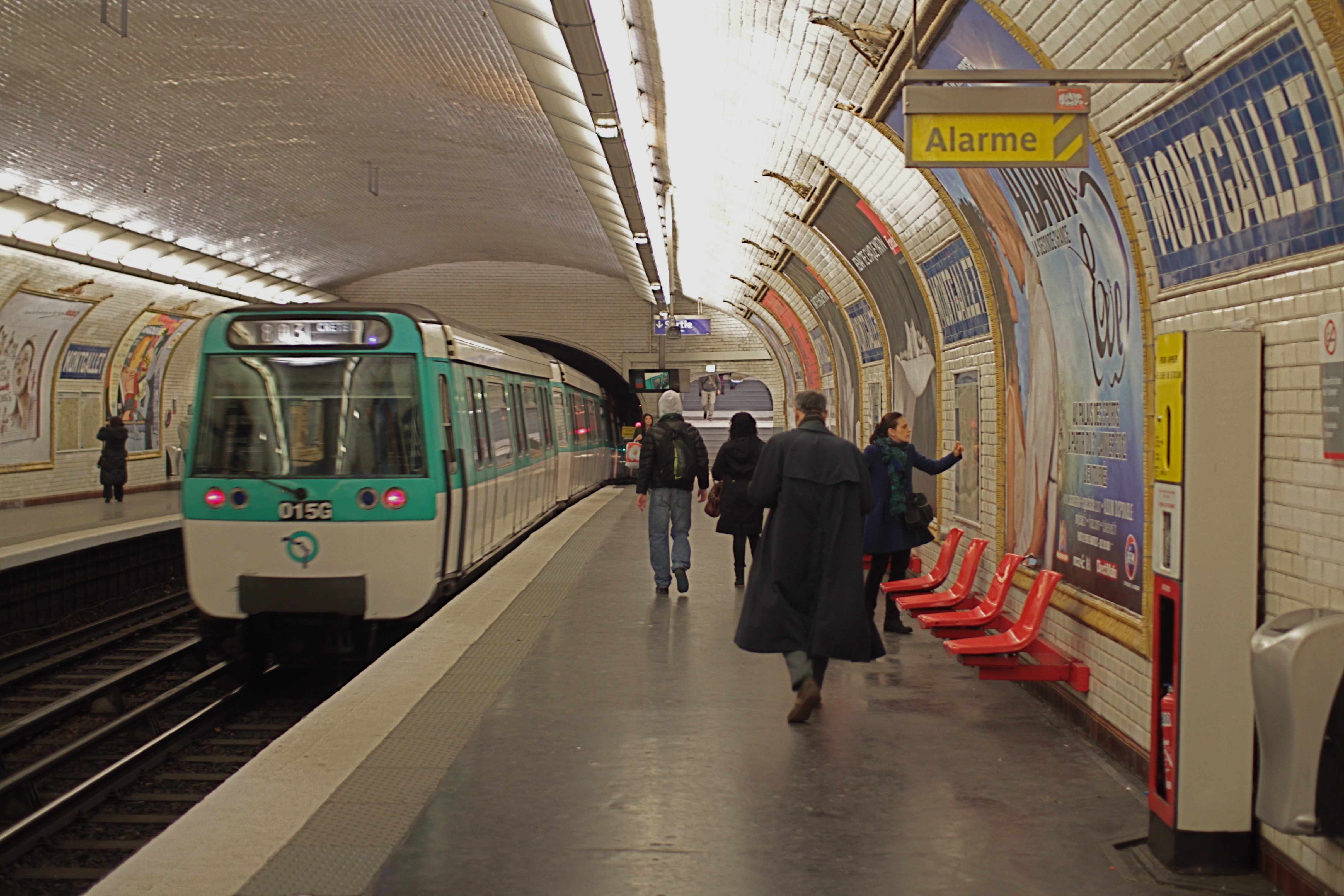 Metro station Montgallet on Parisian metro line 8